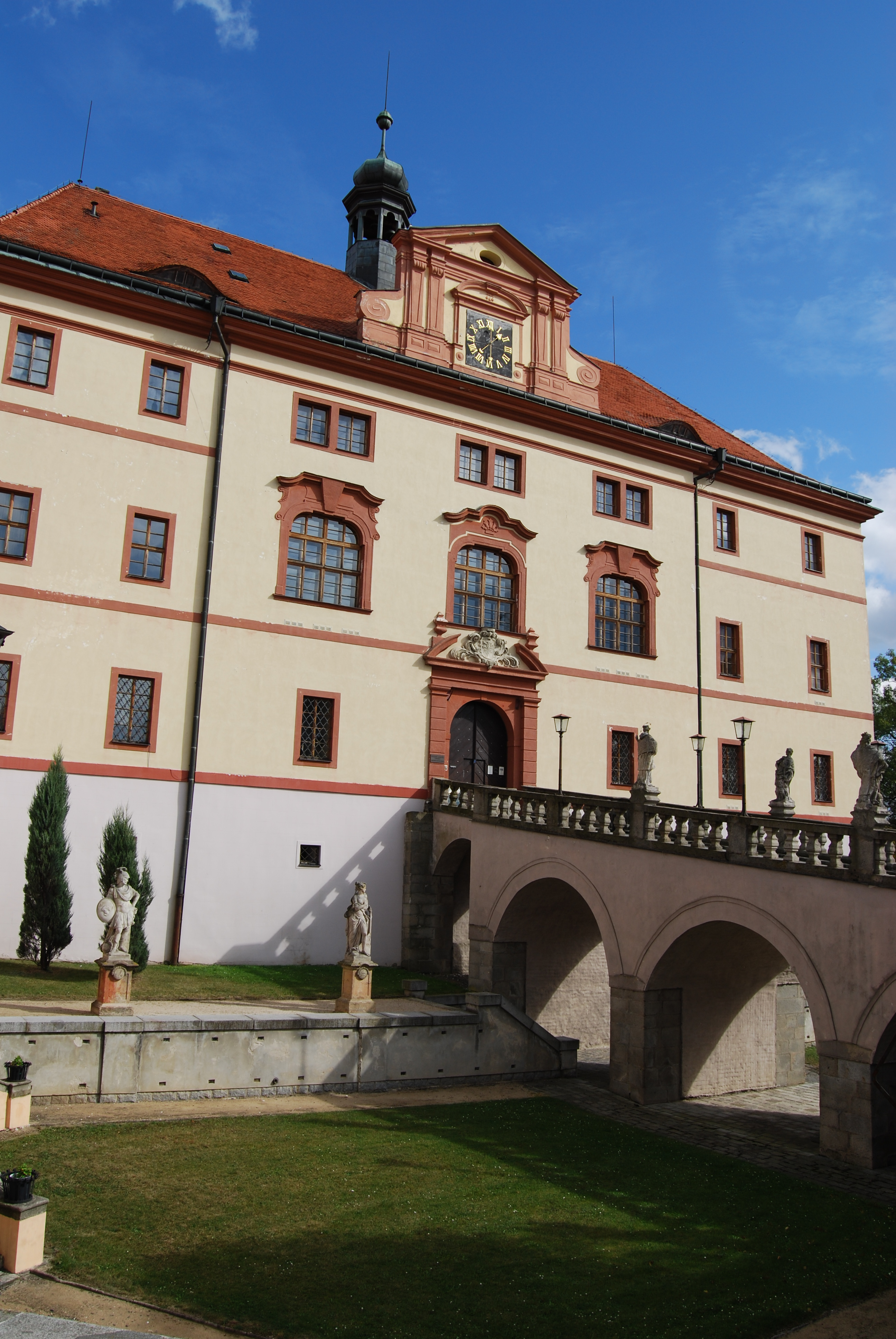 "Nový zámek" in Lnáře town, Strakonice District, Czech Republic.